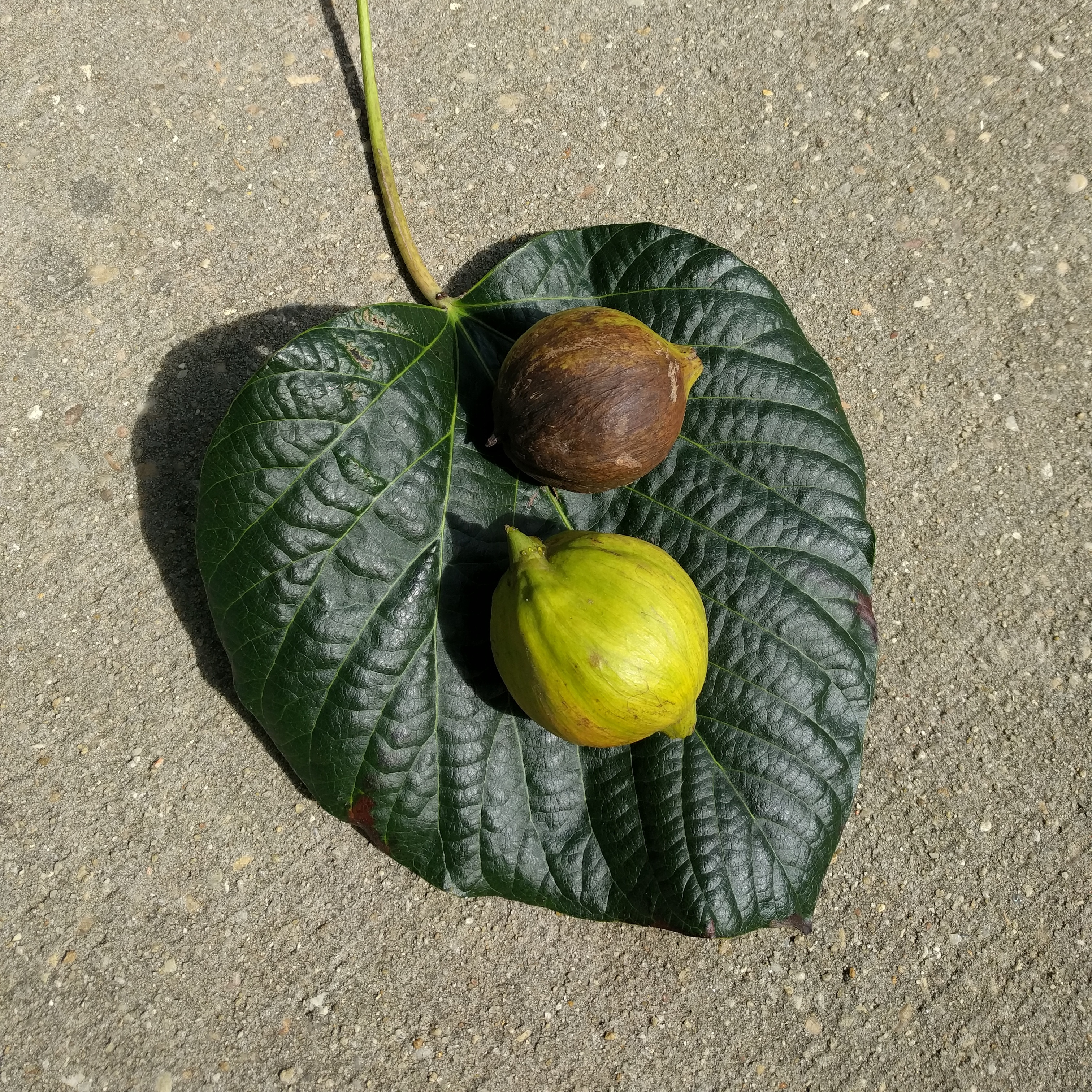 Tung Oil Tree berries and leaf